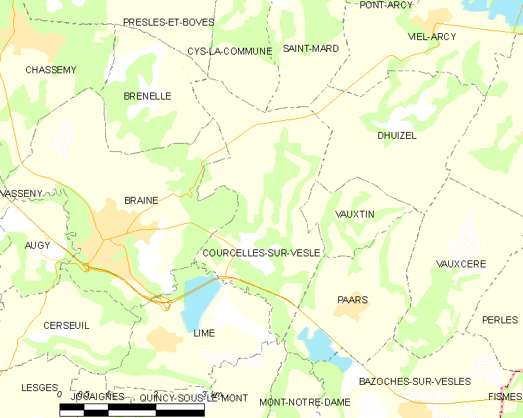 Map of French commune: Courcelles-sur-Vesle Map commune FR insee code 02224.png